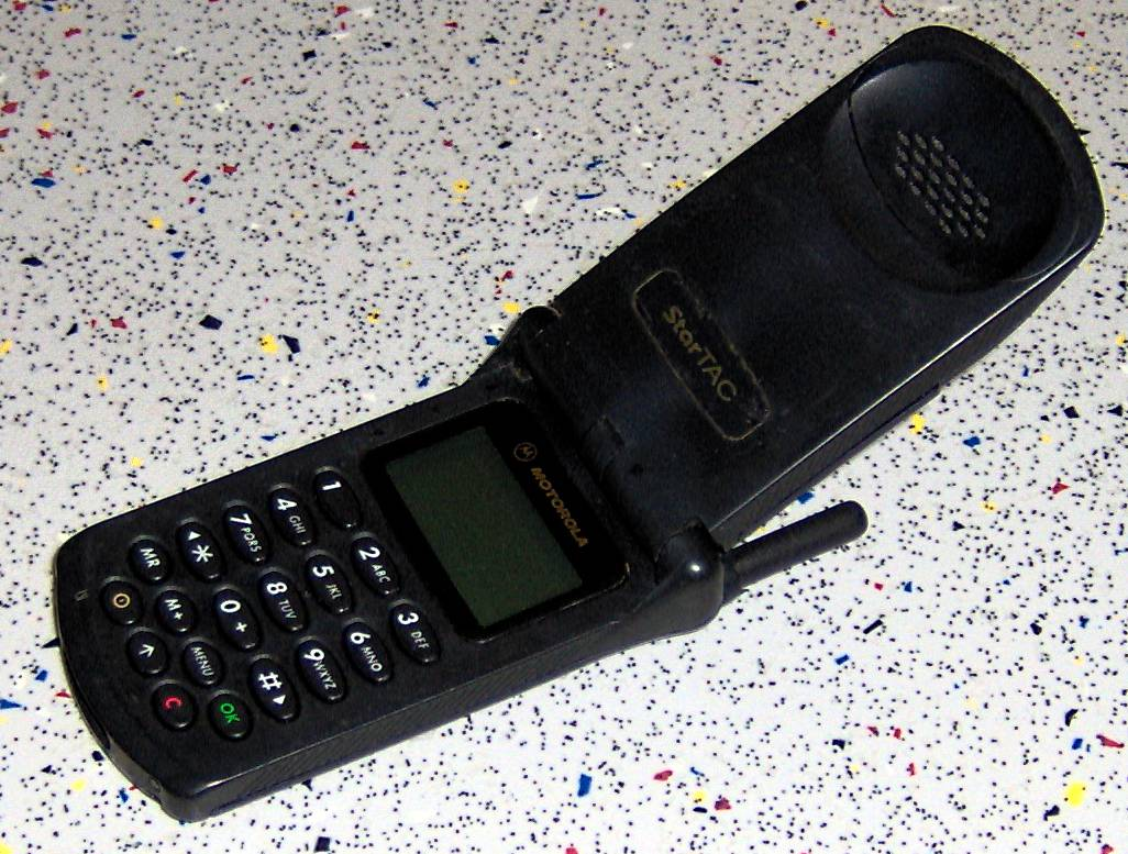 A Motorola StarTAC (GSM model), produced in 1997. From my own collection. Taken by ProhibitOnions, 2007.